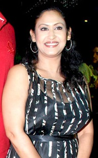 Indrani Haldar at Completion party of 200 episodes of TV show 'Maryada.....Lekin Kab Tak